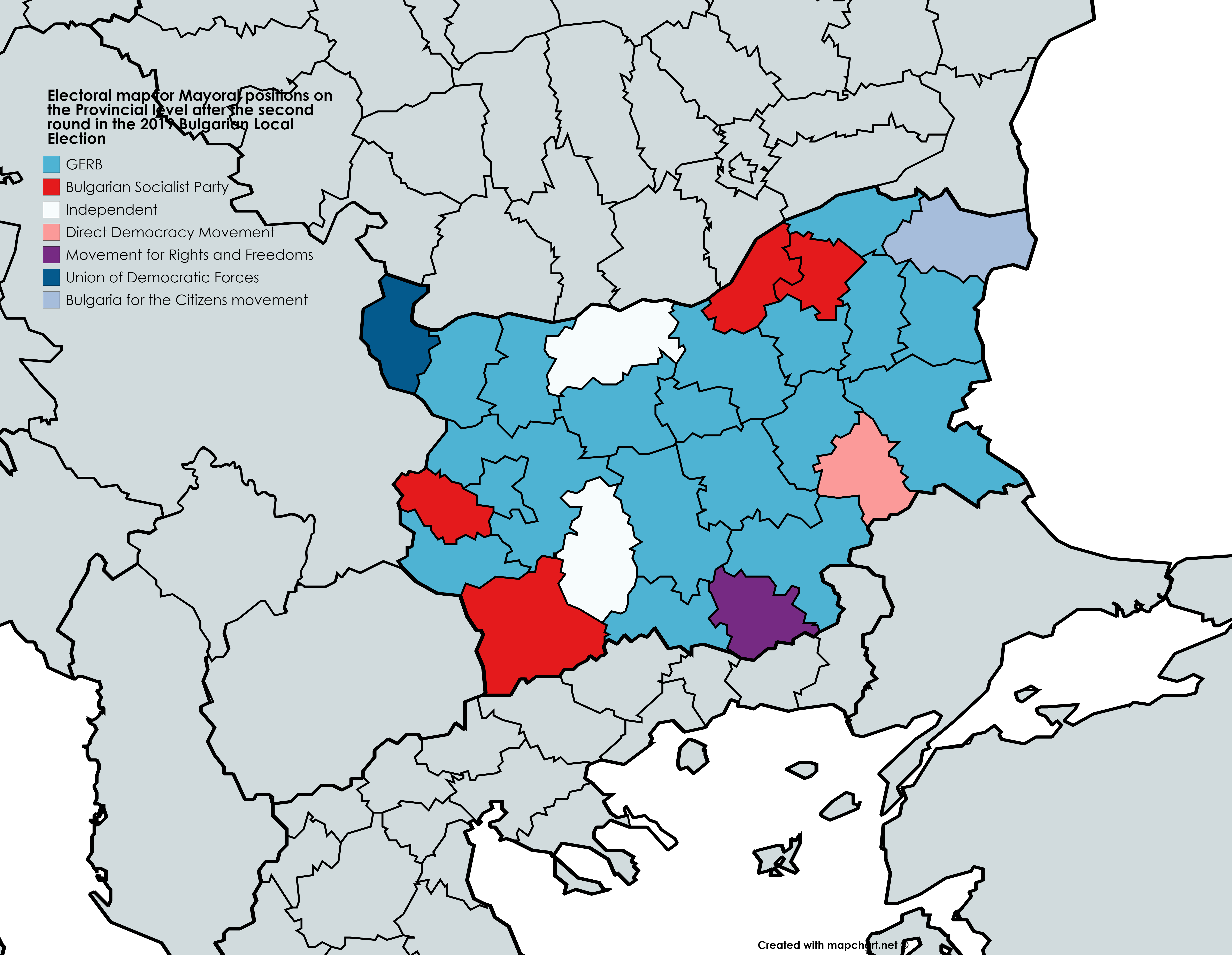 An electoral map depicting the final winners of mayoral positions on the provincial level after the second runoff round in the 2019 Bulgarian local elections